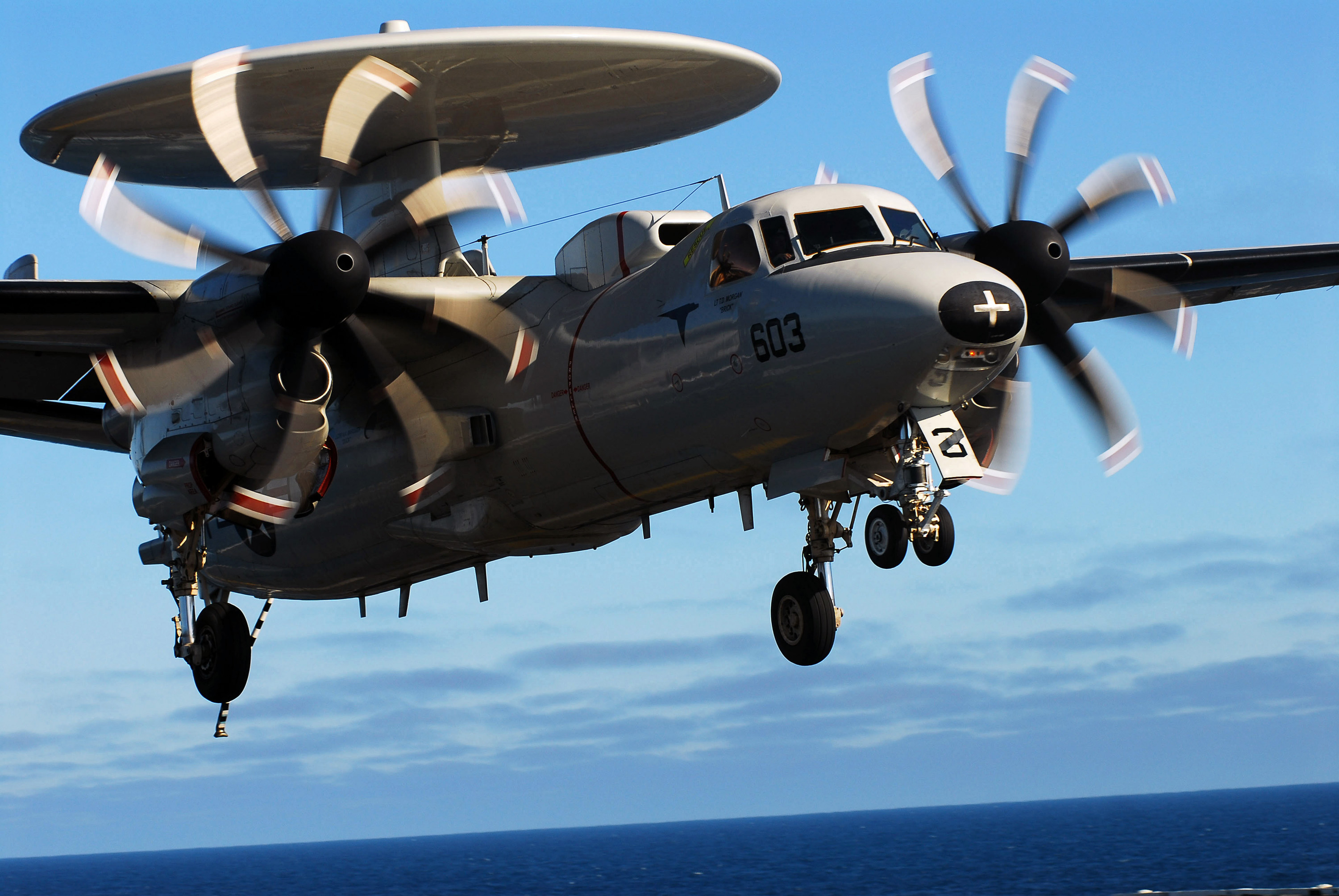 A US Navy (USN) E-2C Hawkeye 2000 aircraft assigned to the "Wallbangers" of Carrier Airborne Early Warning Squadron 117 (VAW-117) approaches to land on the flight deck of the USN Nimitz Class Aircraft Carrier, USS JOHN C. STENNIS (CVN 74), while the ship is underway in the Pacific Ocean, conducting carrier qualifications. (Released to Public) DoD photo by: MC3 (SW) JOHN HYDE, USN Date Shot: 13 Jul 2006